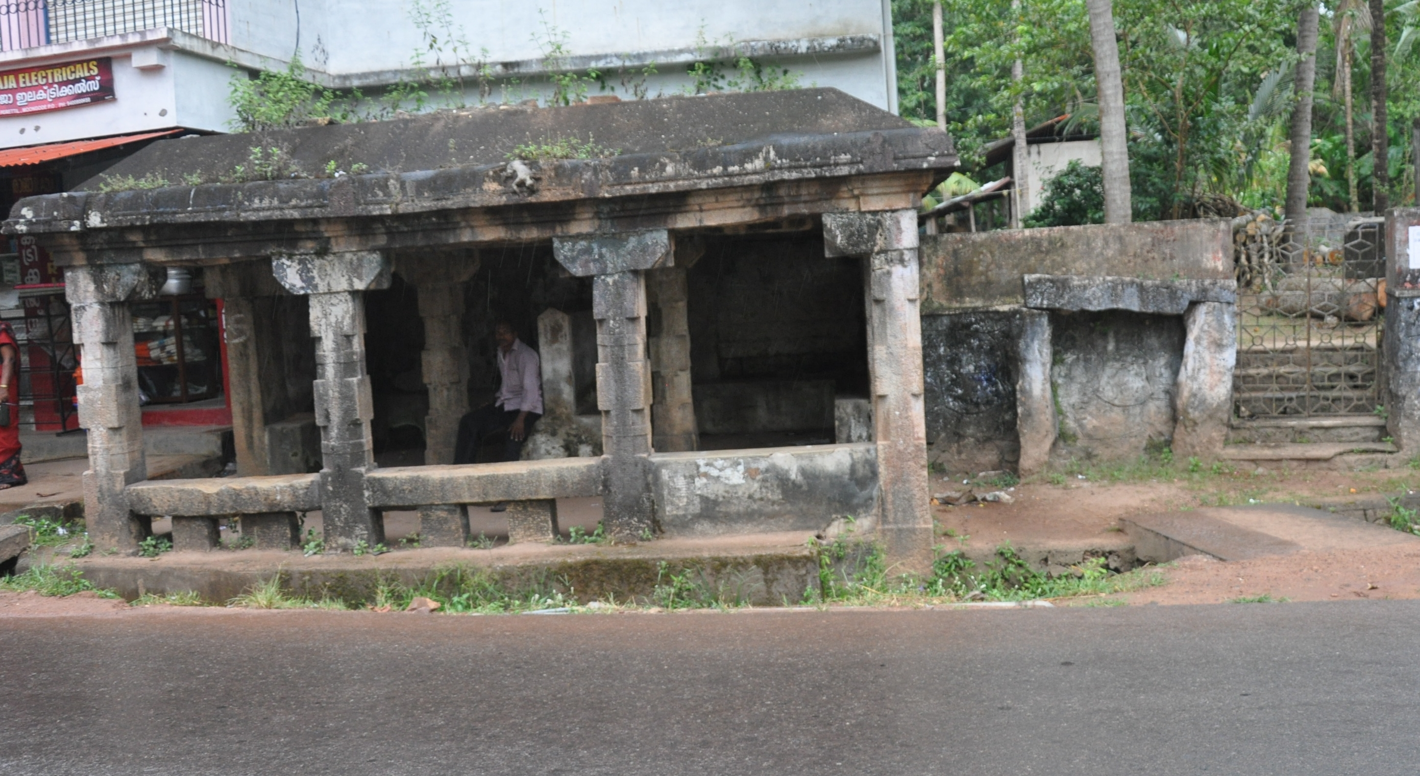 Thaneer pandal, seen in Kallambalam - varkala road